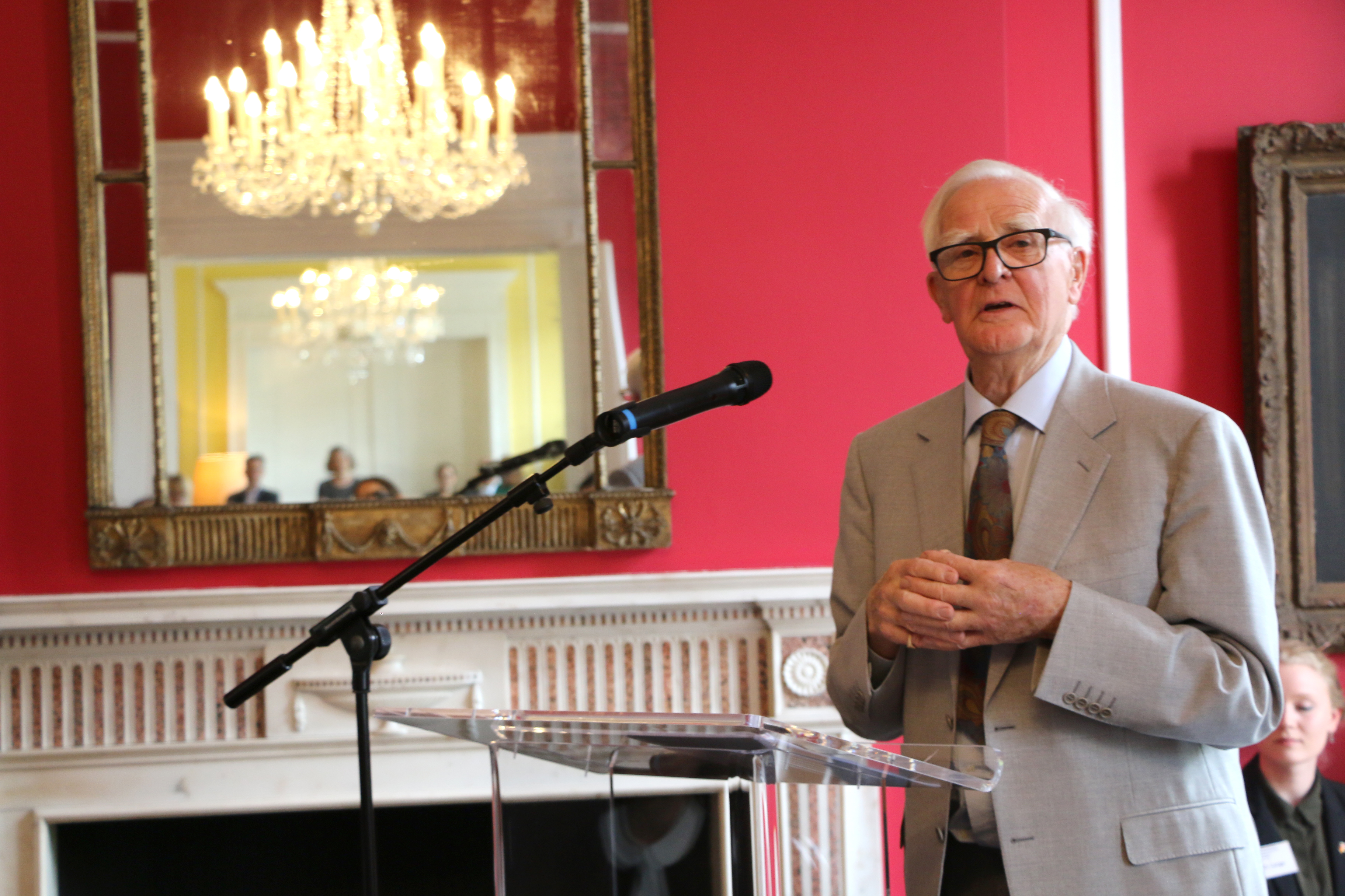 John le Carré giving his thrilling keynote speech